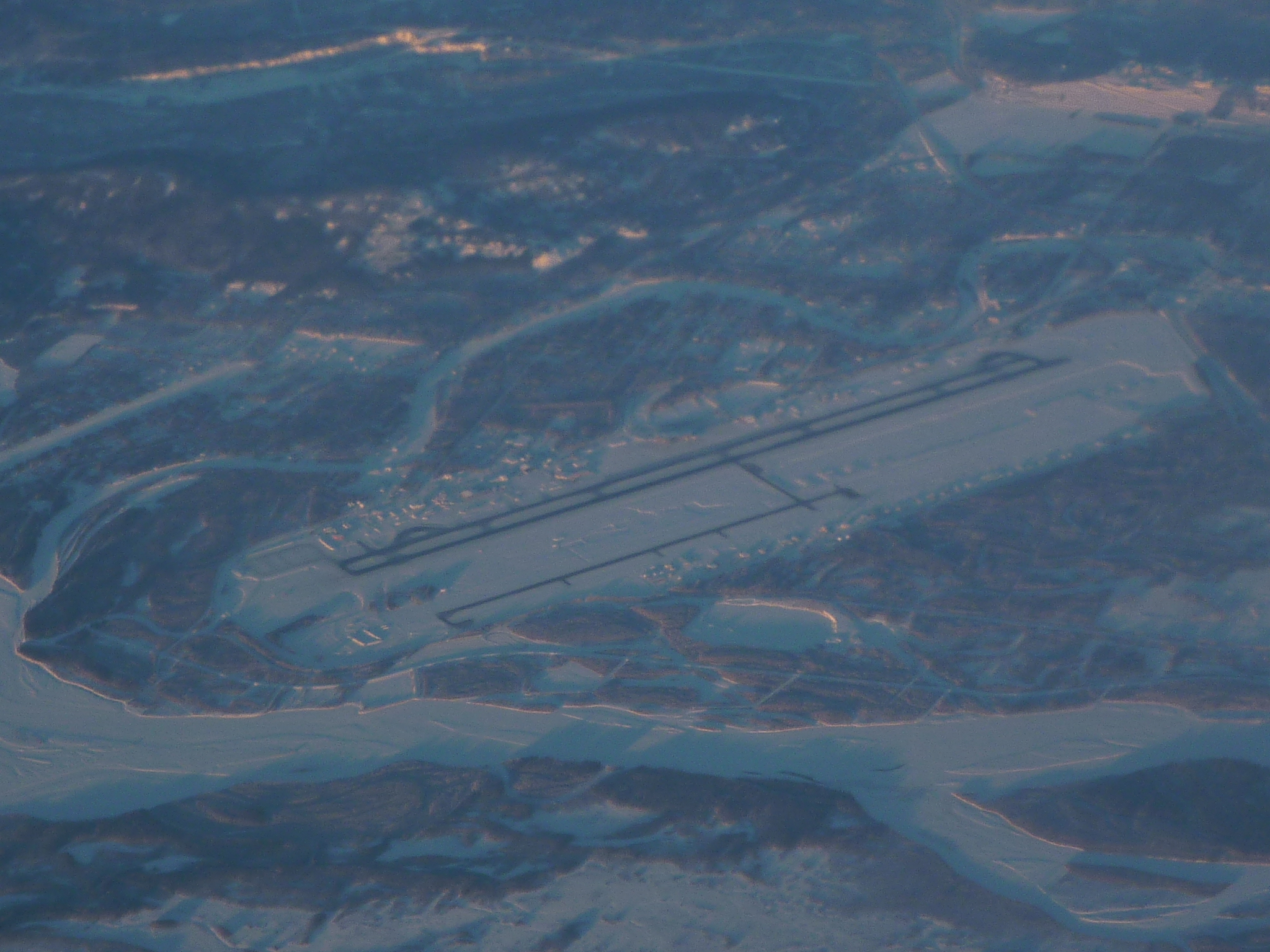 Fairbanks Airport - aerial view. Tanana River is in the bottom part of the photo. Seen from a non-stop AA flight Chicago-Beijing.